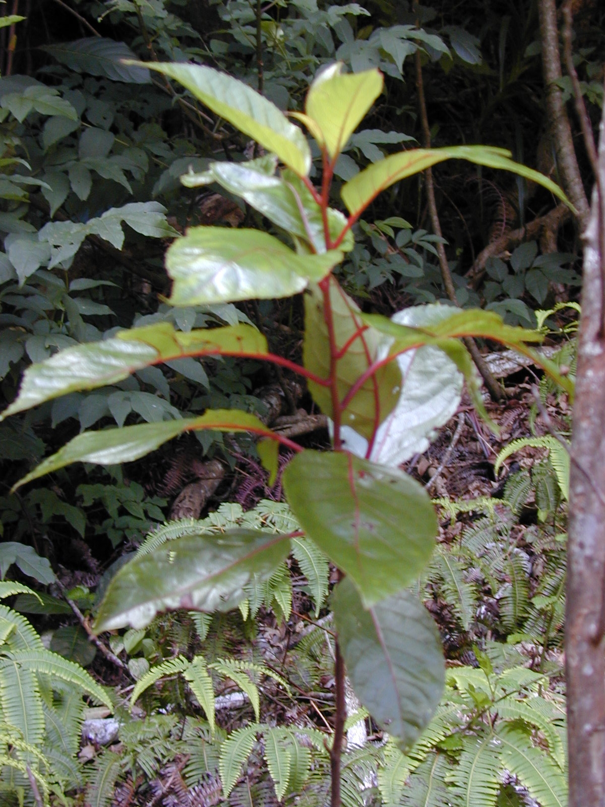 Perrottetia sandwicensis (habit). Location: Maui, Makawao Forest Reserve